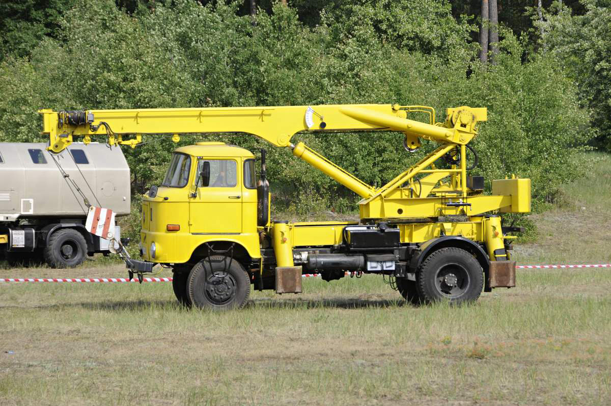 TAKRAF ADK 70